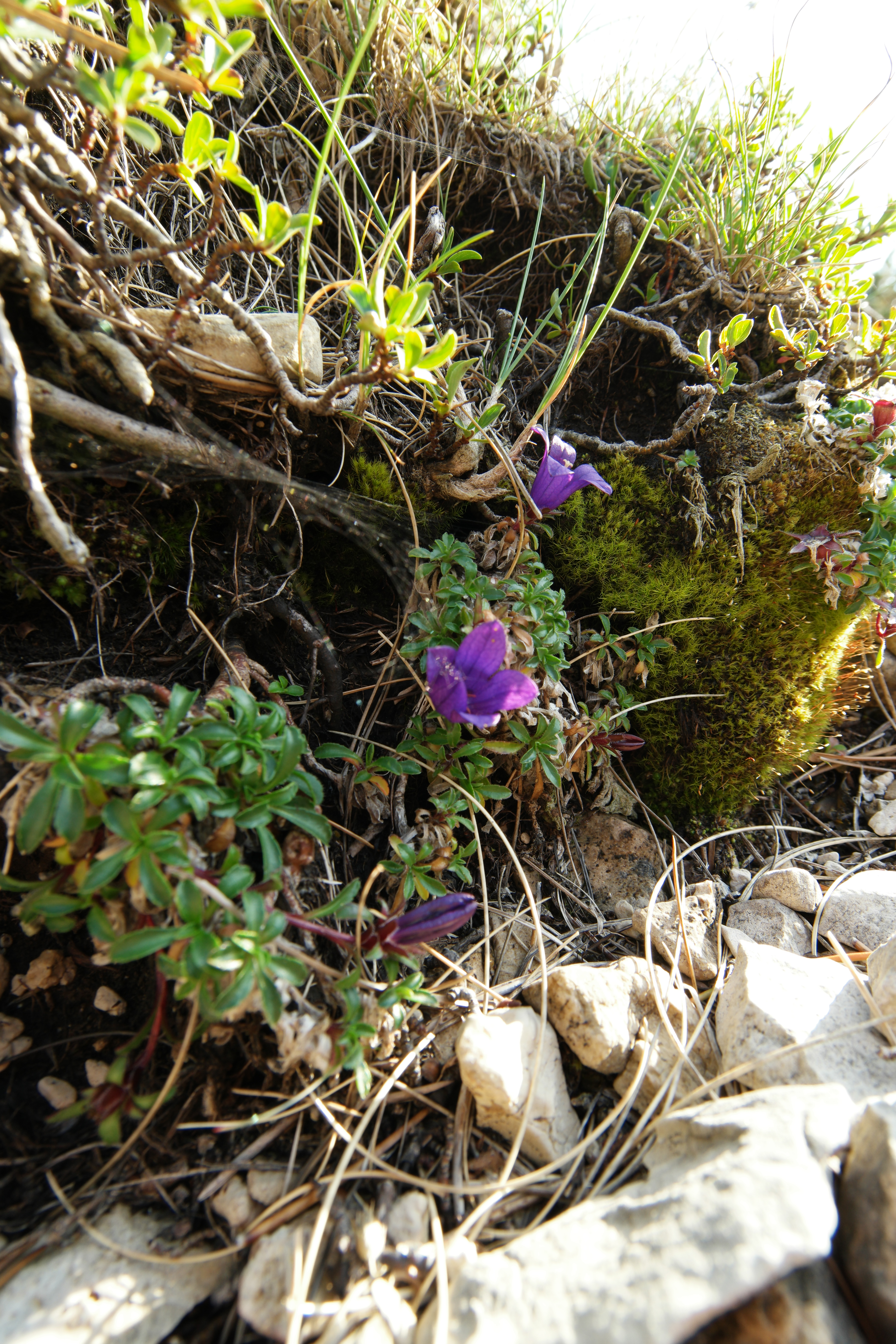 Sanionia uncinata - Edraianthus serpyllifolius - Salix retusa in the Subadriatic Dinaric alps leg P. Cikovac Opuvani do